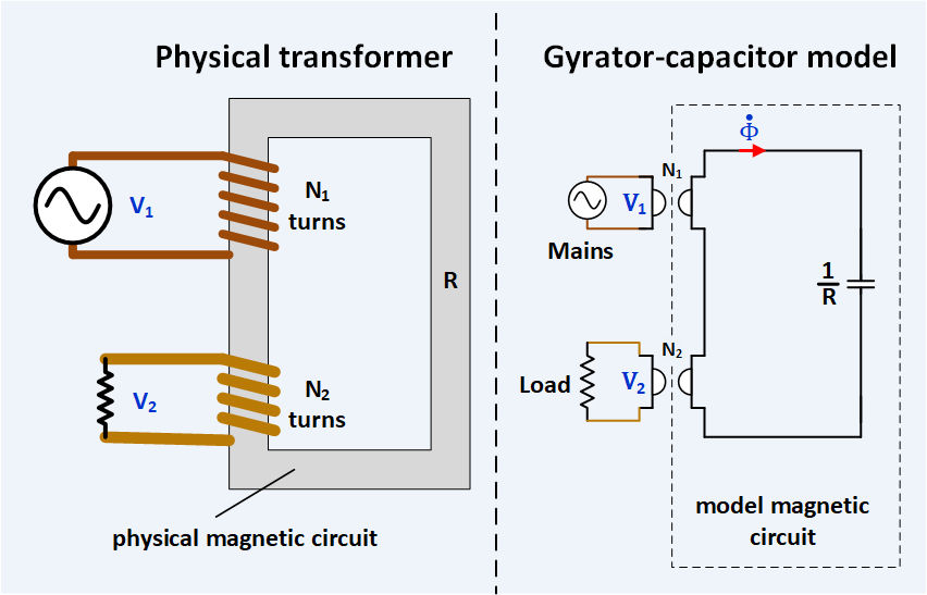 A simple transformer composed of two windings and a reluctance, R, is modeled by two gyrators and a capacitor of value 1/R.